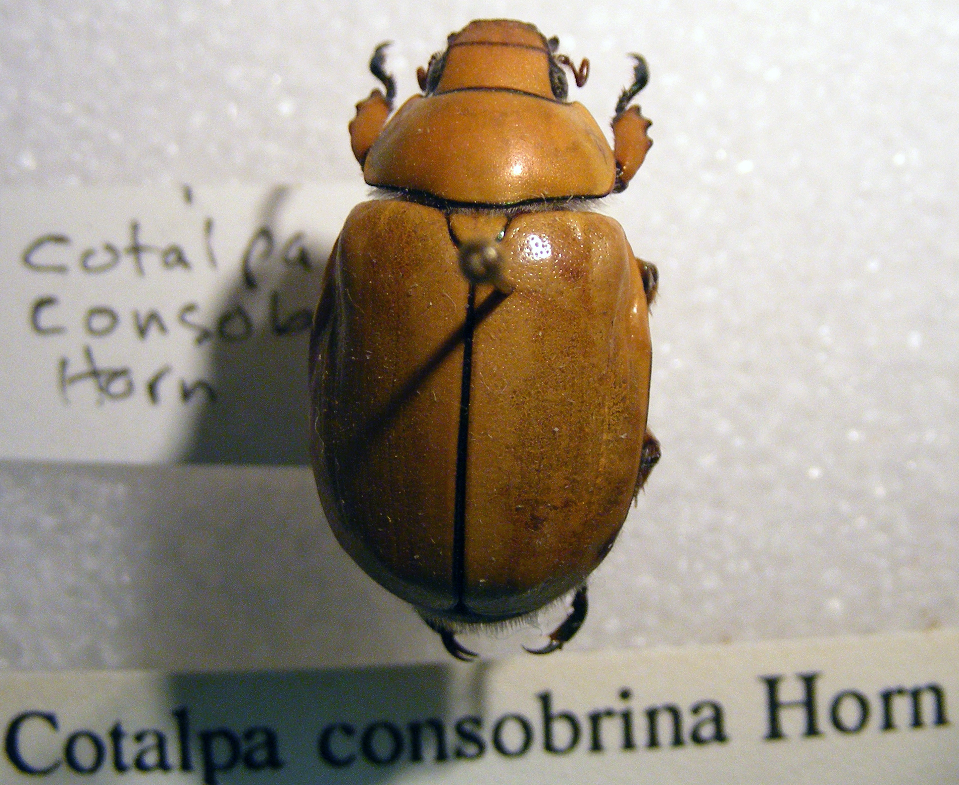 Cotalpa consobrina adult from the Texas A&M University Insect Collection